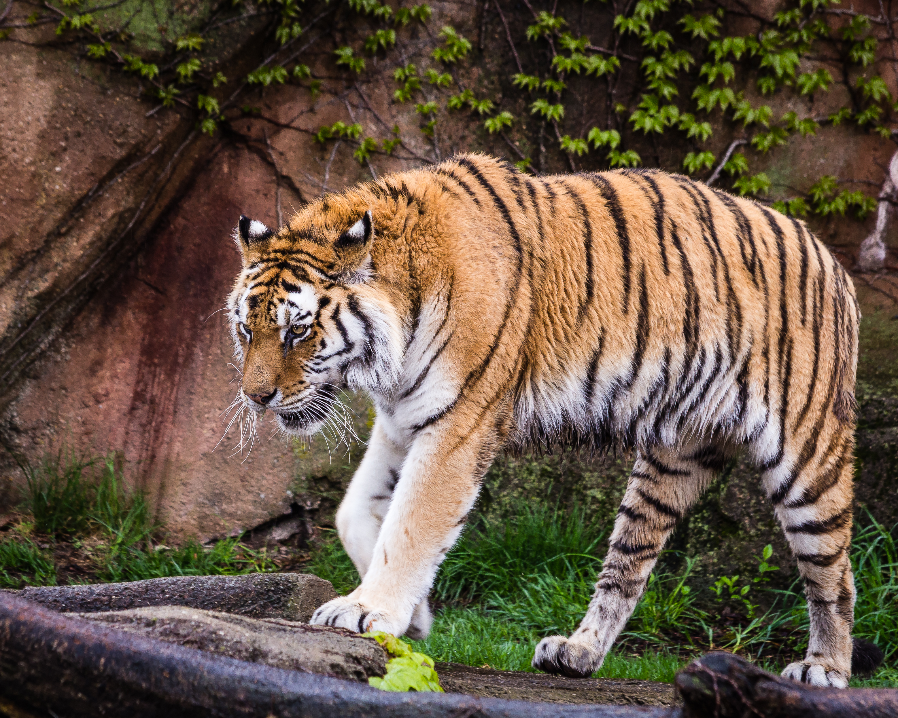 Chicago